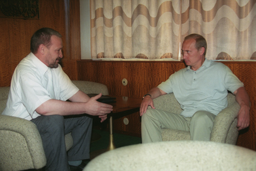 SOCHI. President Vladimir Putin with Akhmad Kadyrov, Head of the Chechen Republic's Provisional Administration.